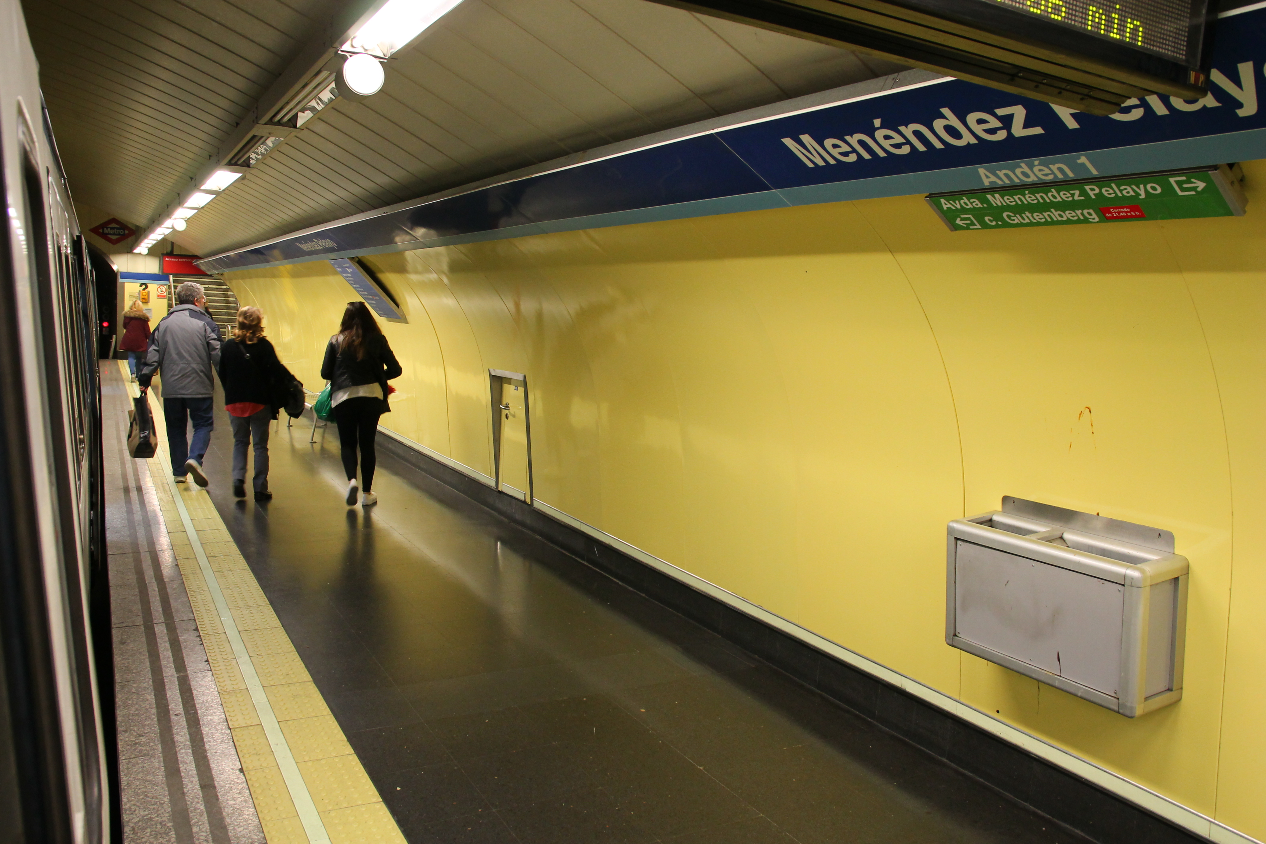 Menendéz Pelayo station. Madrid Metro.